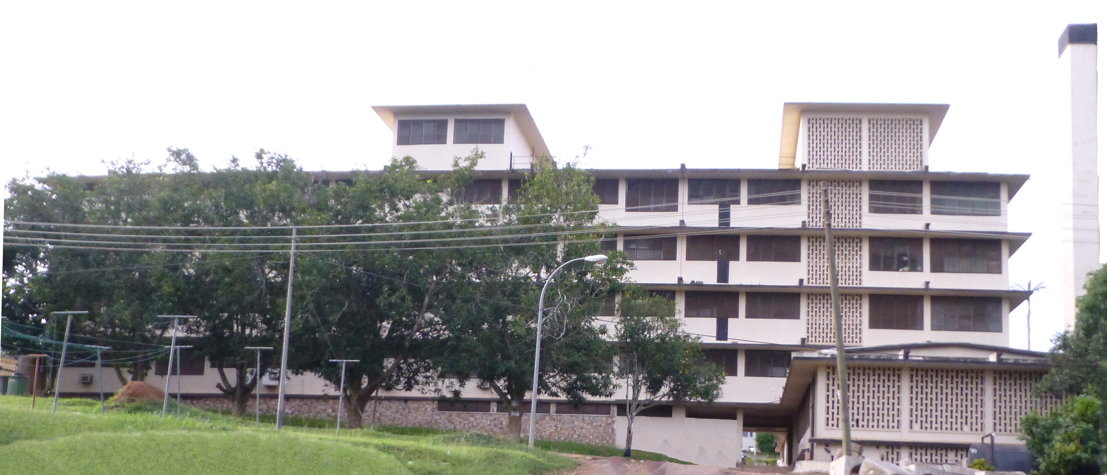 The southwestern elevation of the largest building of the Tetteh Quarshie Memorial Hospital in Mampong, Ghana. This is the back of the building. The main entrance is on the opposite side.